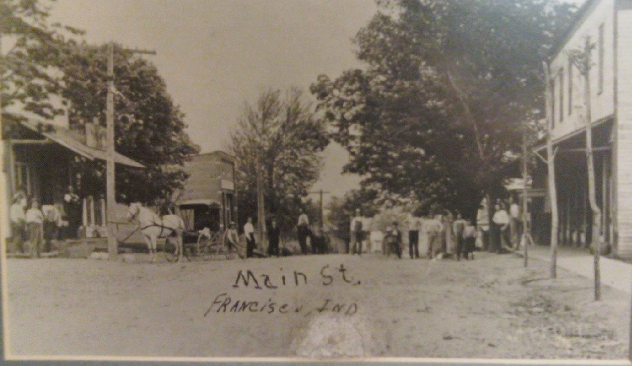 The view along Main Street in the early days of Francisco, Indiana.